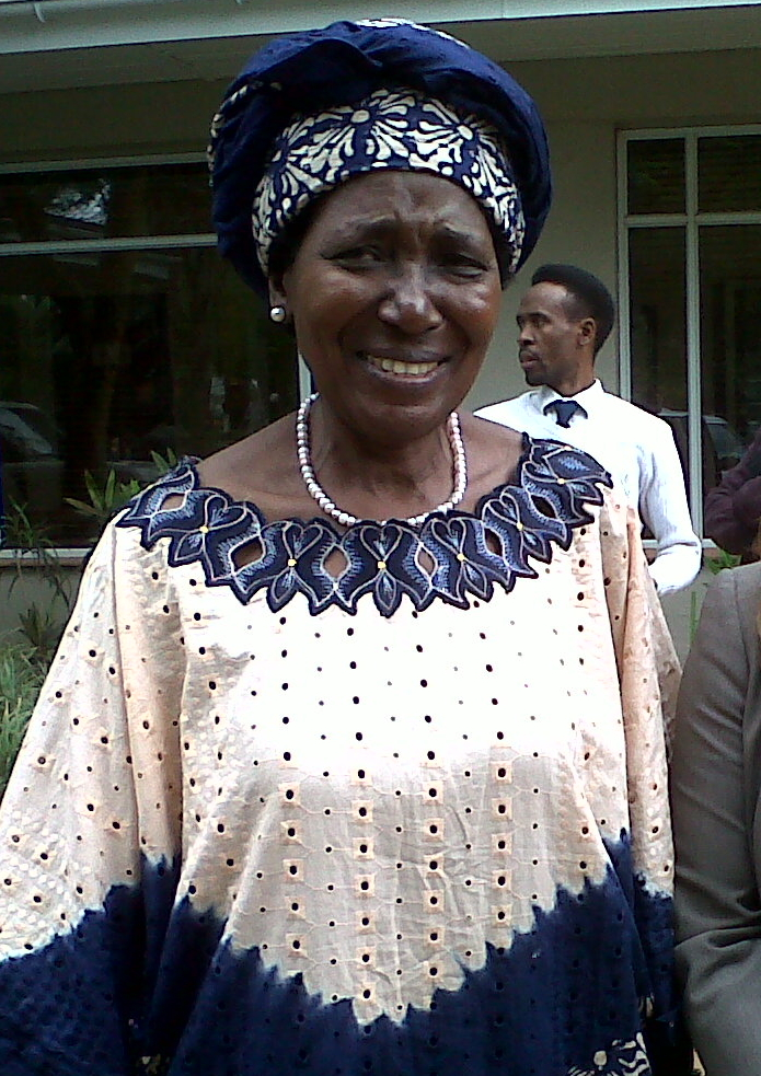 Inonge Wina in 2012.